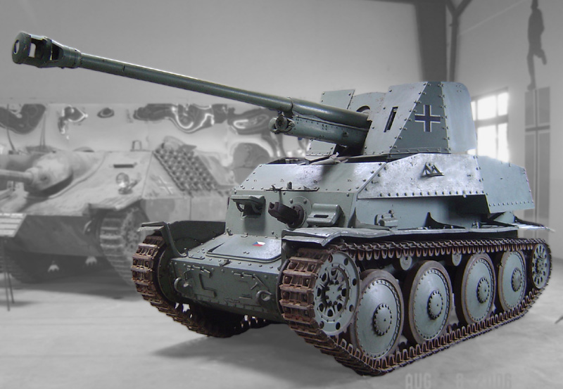 Marder III (Sd.Kfz.139). On display at the Musée des Blindés at Saumur. The picture taken August 8, 2006.